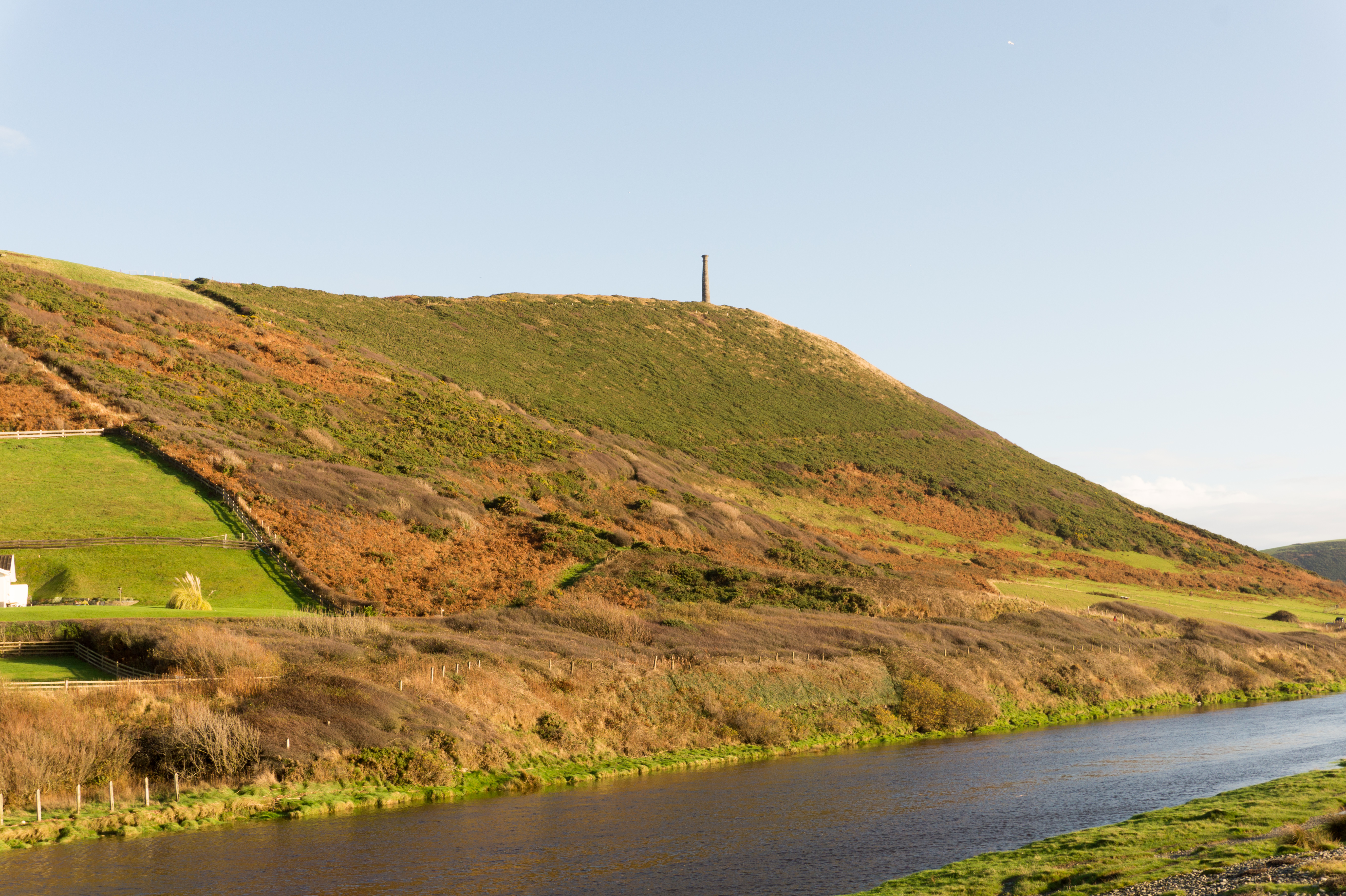 Pen Dinas and Iron Age Fort overlooking Aberystwyth